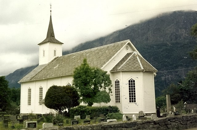 Unidentified norwegian church